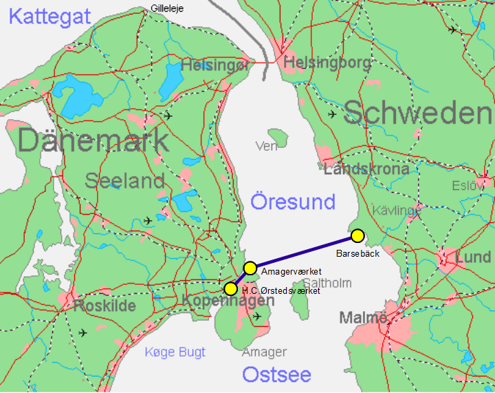 Planned 400 kV cable from H.C.Ørsted power station (H.C.Ørstedsværket) via Amager power station (Amagerværket) to decommissioned Barsebäck nuclear power station (Barsebäcks kärnkraftverk). Based on information from Energinet.dk.